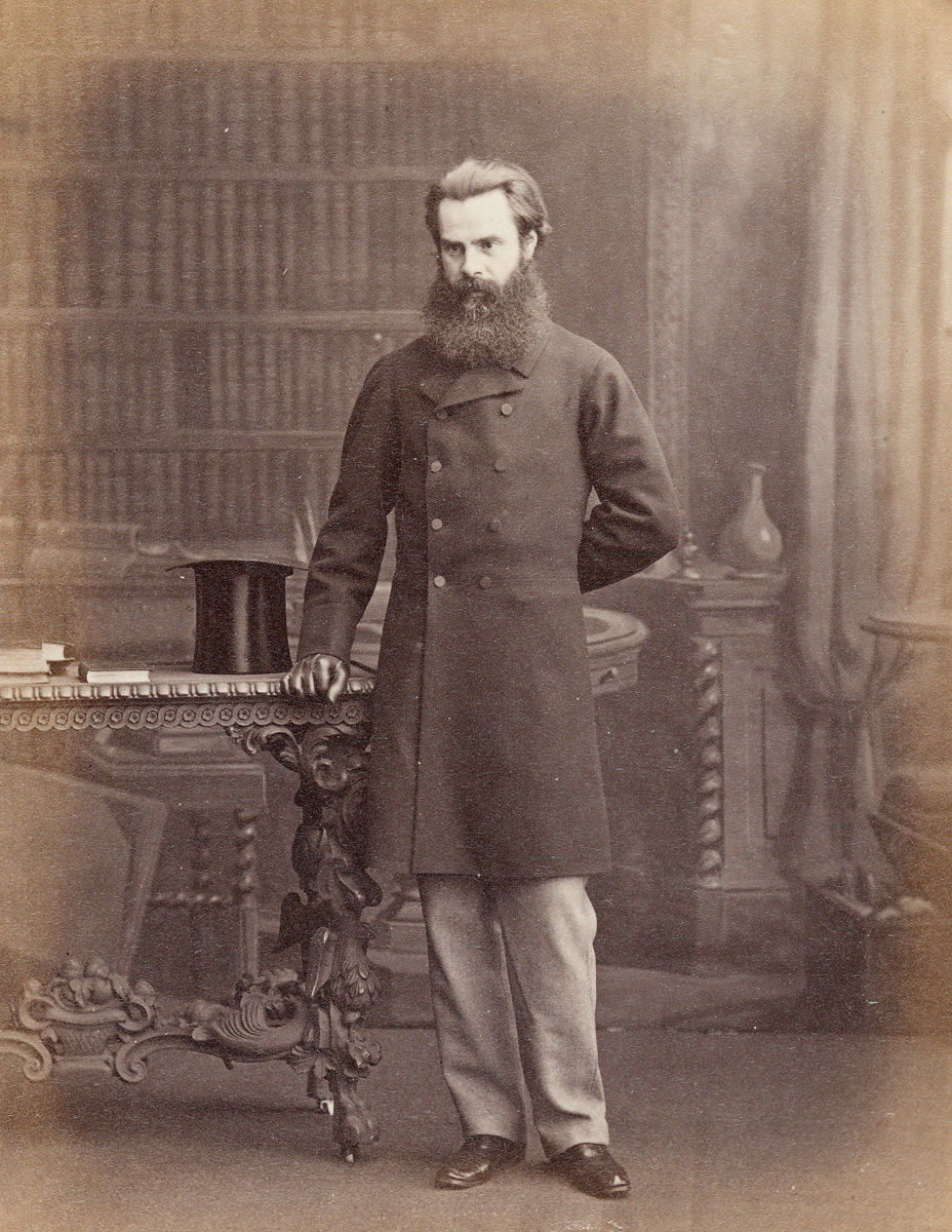 Thomas Woolner, c. 1865, by an unknown artist. Collection: National Portrait Gallery, Canberra.